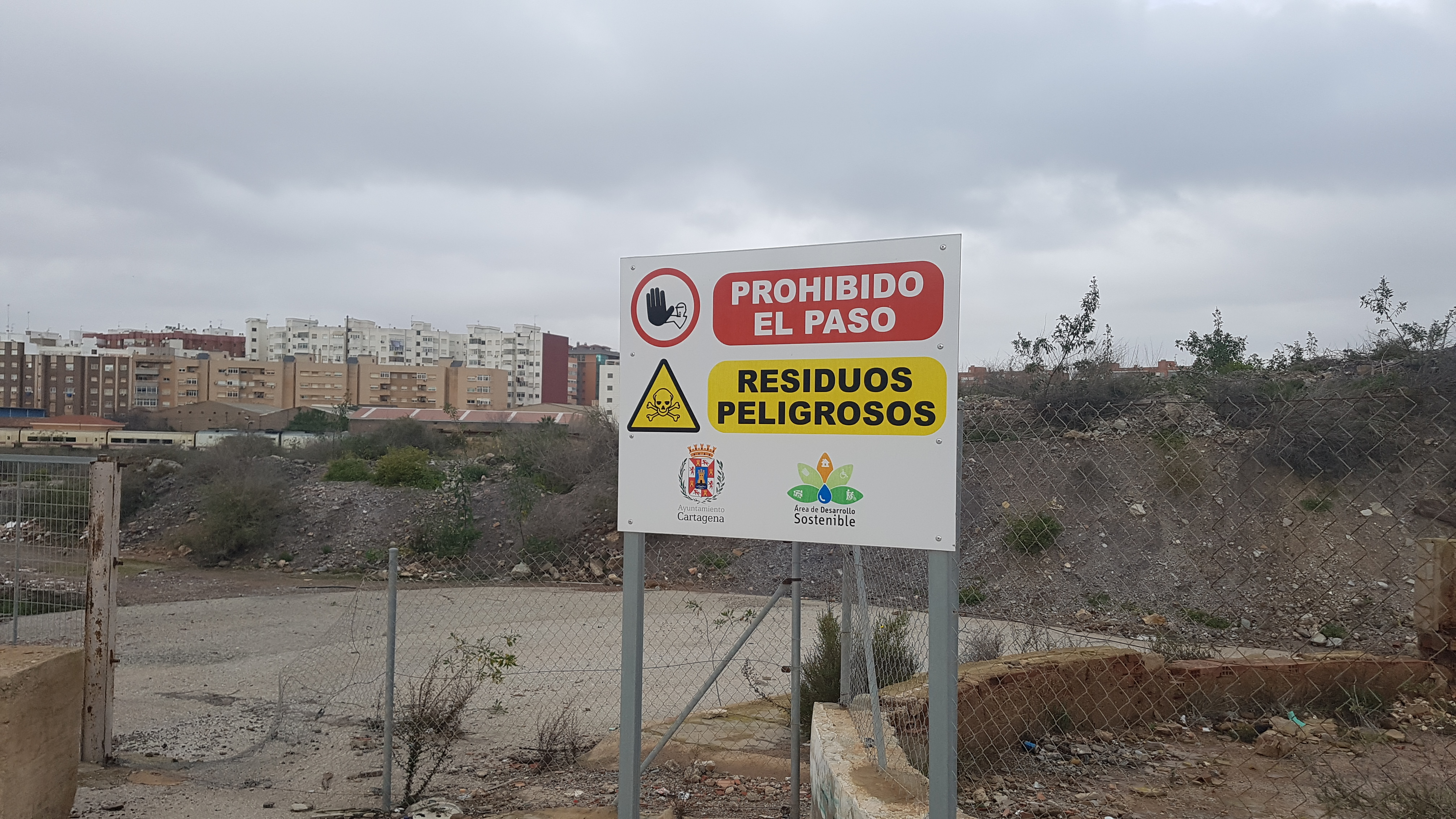 Closed entrance to the site of the former Potasas y Derivados factory of the Ercros Group, in the deputation of El Hondón of Cartagena (Spain). Although the factory was dismantled in 2002, the land where it was located remains contaminated and subject to the supervision of the Nuclear Safety Council.